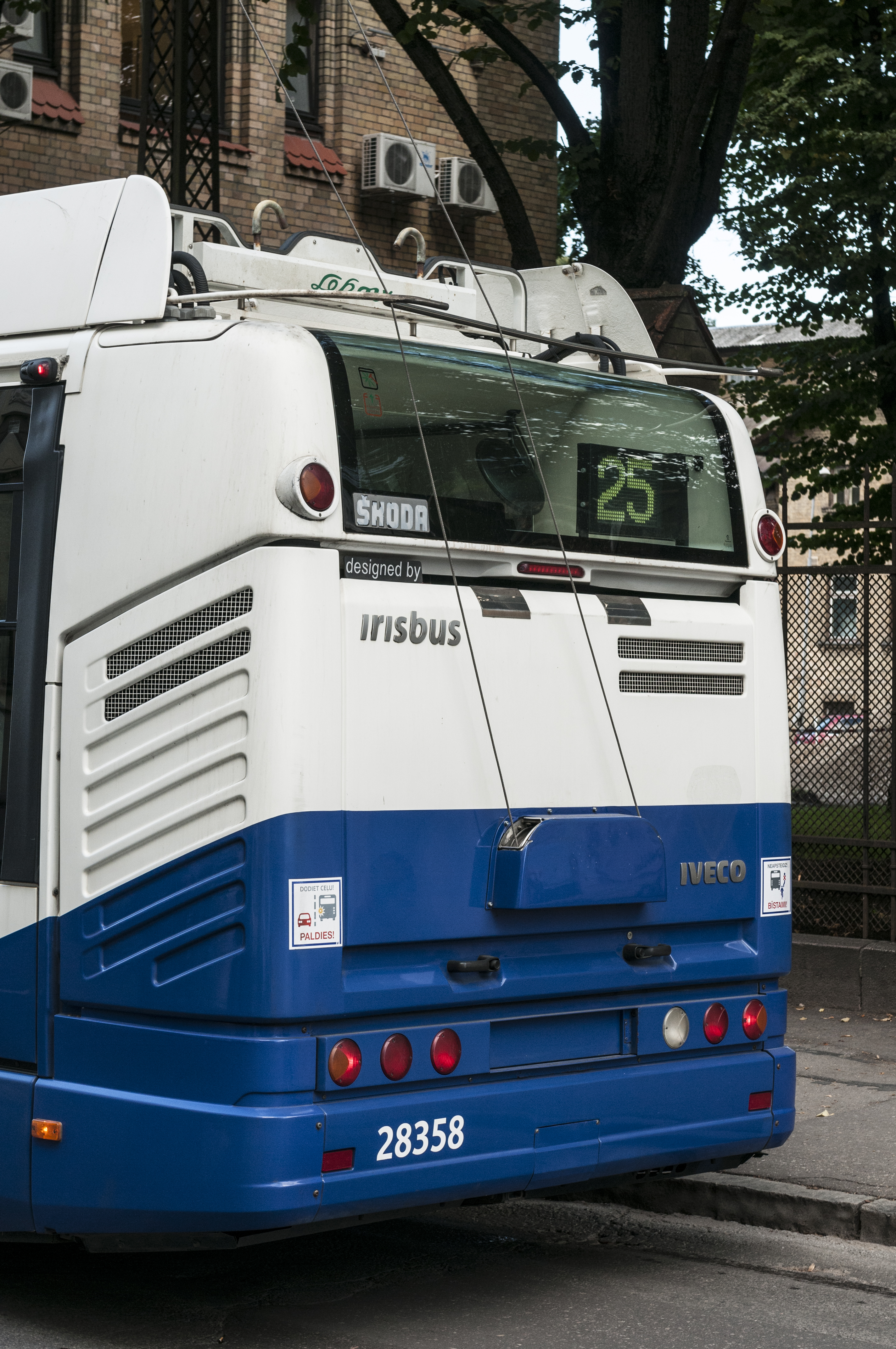 Škoda 24Tr Irisbus in Riga, Latvia